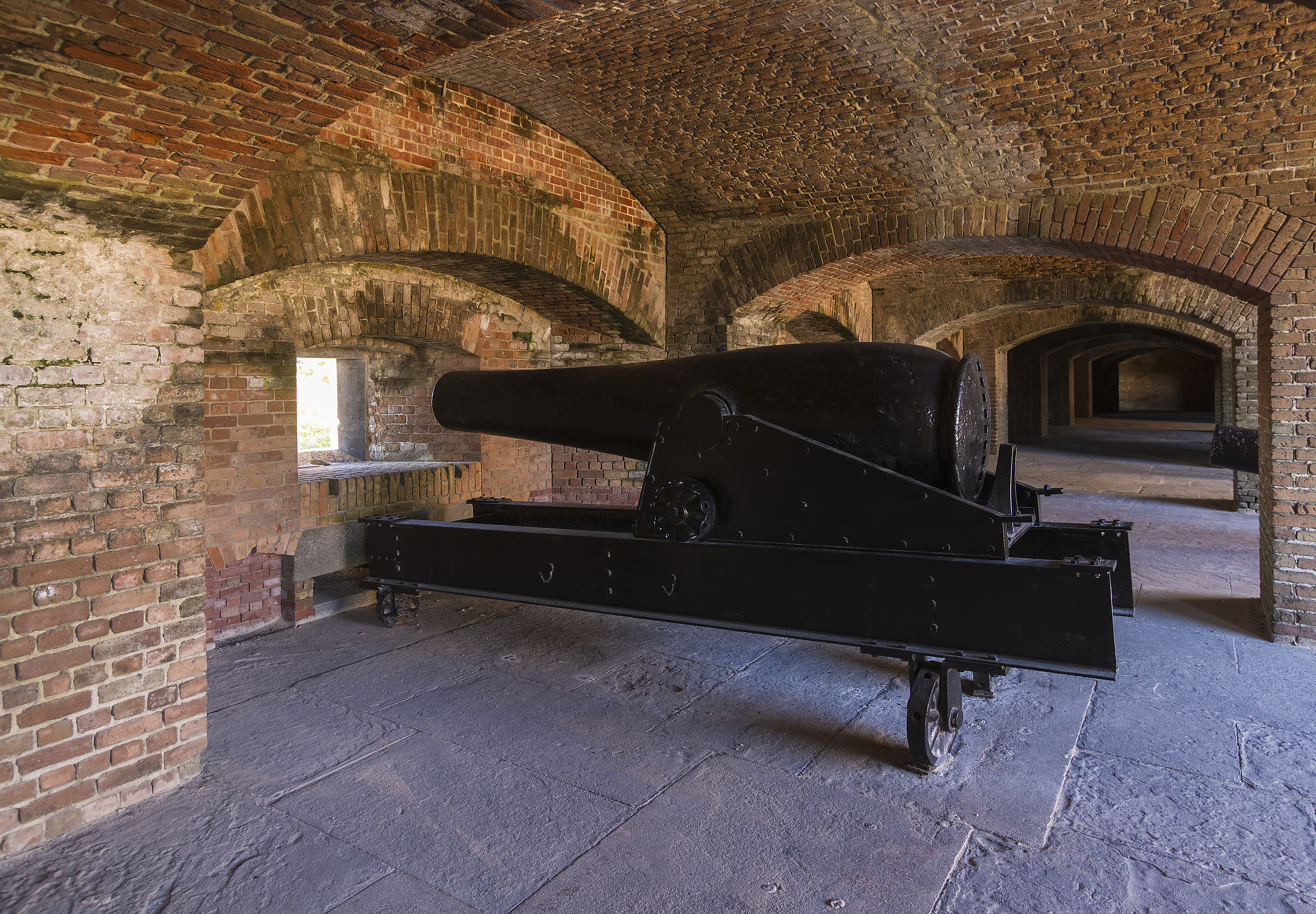 Fort Zachary Taylor, Fort Zachary Taylor, Key West, Florida, USA